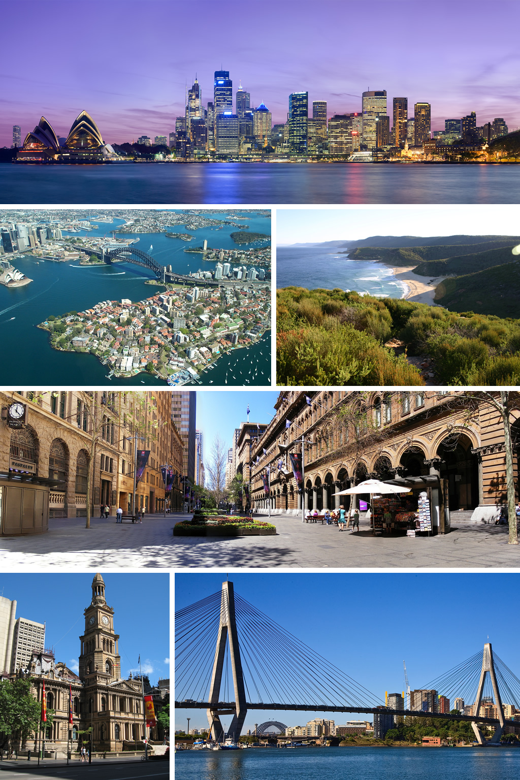 A montage created from various images of Sydney. From top, left-to-right: Sydney skyline at dusk (File:Sydney_skyline_at_dusk_-_Dec_2008.jpg) Port Jackson from the air (File:Sydney_Harbour_Bridge_from_the_air.JPG) Royal National Park (File:Garie_Beach.jpg) Martin Place (File:Martinsplace.jpg) Sydney Town Hall (File:SydneyTownHall_gobeirne.jpg) ANZAC Bridge (File:Anzac_Bridge_and_Sydney_harbour_Bridge_from_Glebe_Point.jpg)